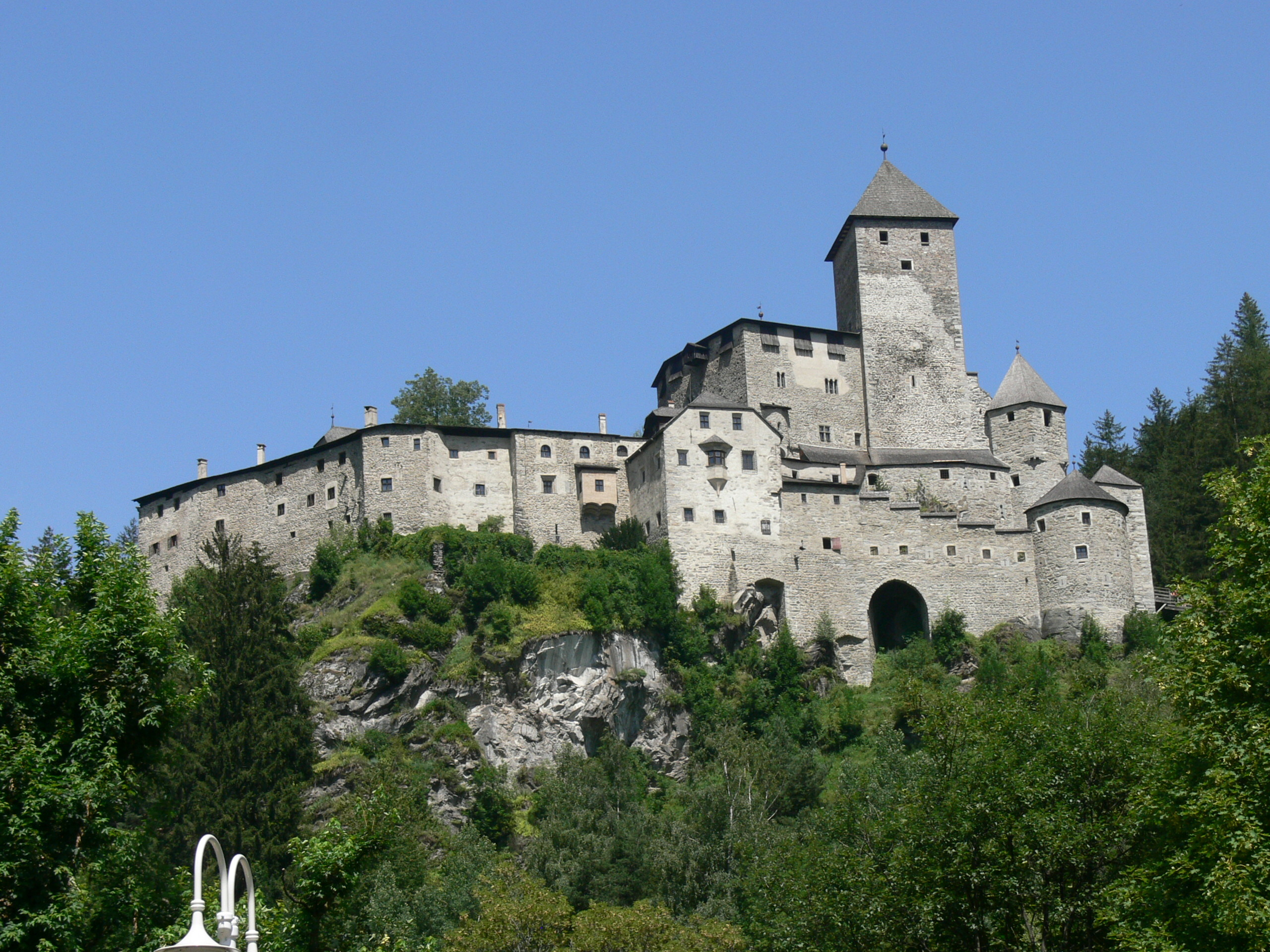 Taufers castle. View from Sand in Taufers.